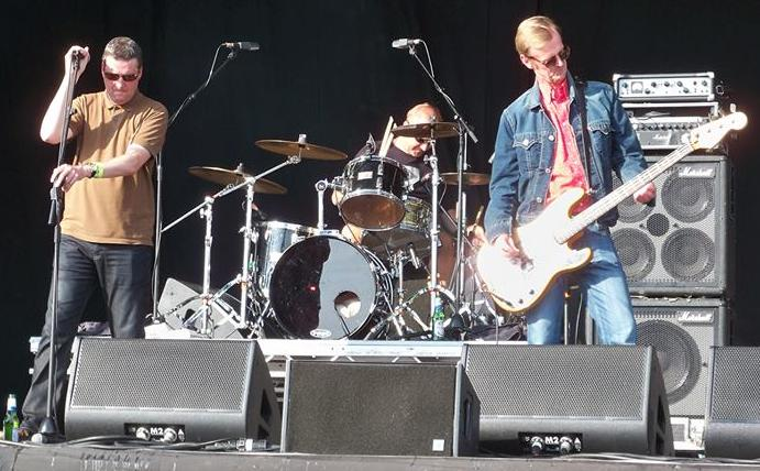 The Farm playing on Saturday afternoon at Guilfest 2014